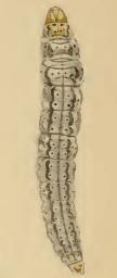 Stainton’s Natural History of the Tineina (1855–1873): Altenia scriptella